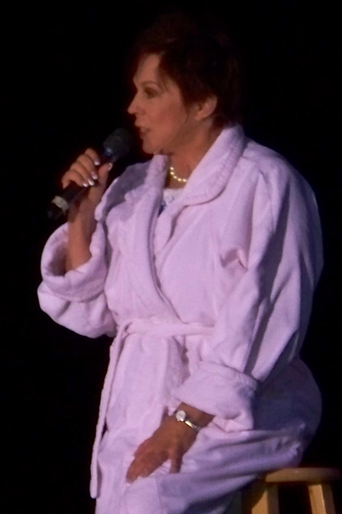 Vicki Lawrence performing live, 2009.